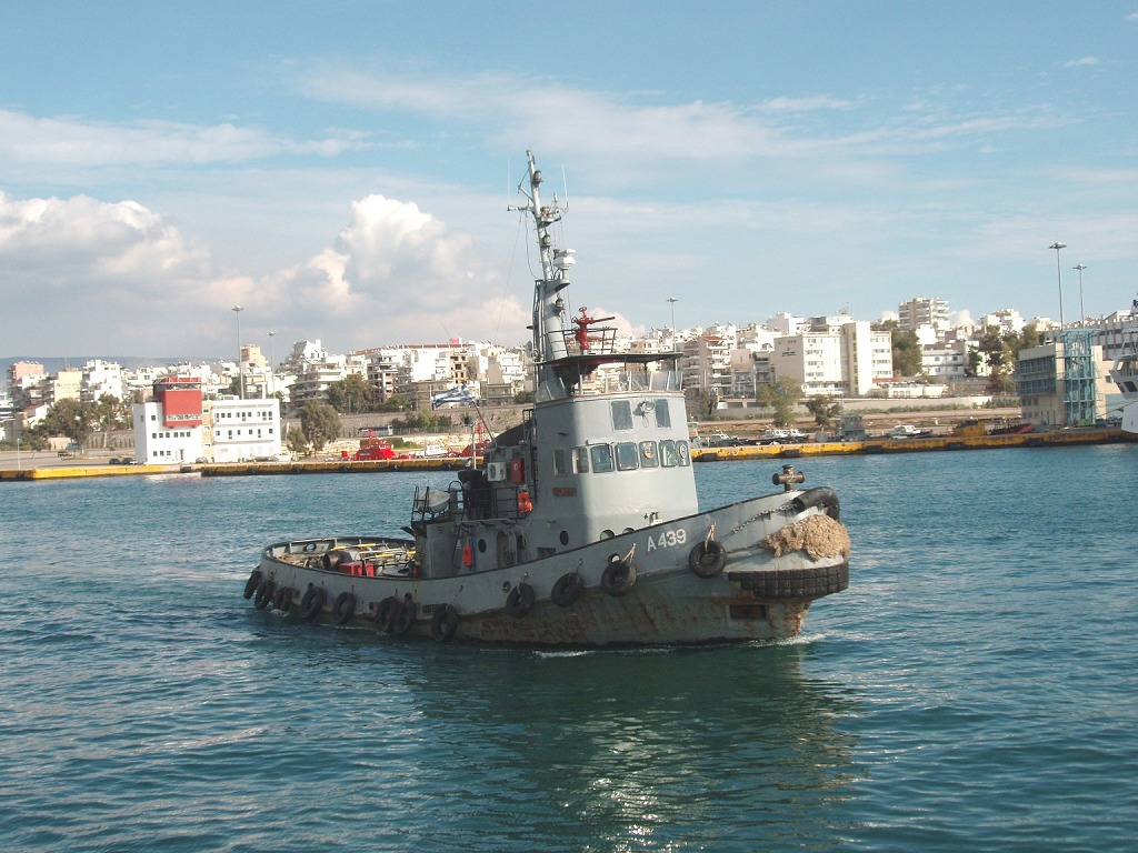 Tugboad HS Atreus (A-439, radio callsign SZ2032) of the Hellenic Navy in Piraeus Harbour. An open sea tug, firefighting and salvage boat, formerly T/B Ellerbek.